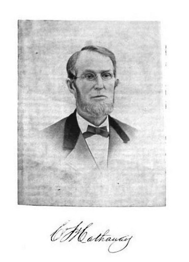 Charles Foster Hathaway. This image was scanned from "Charles Foster Hathaway", in the Illustrated History of Kennebec County, Maine; 1625-1799-1892, Part 2, Henry D. Kingsbury, Simeon L. Deyo, H.W. Blake & Company, 1892, pages 588a-589a.